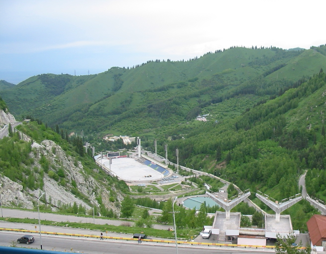 The Medeo (Kazakh Медеу, which would be more properly spelled Medew to suit the correct pronunciation) outdoor speed skating rink